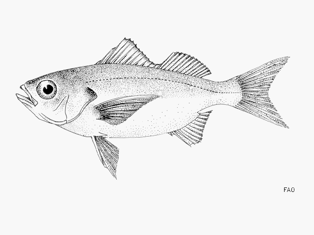 "Bigeye grunt" (Brachydeuterus auritus) picture.